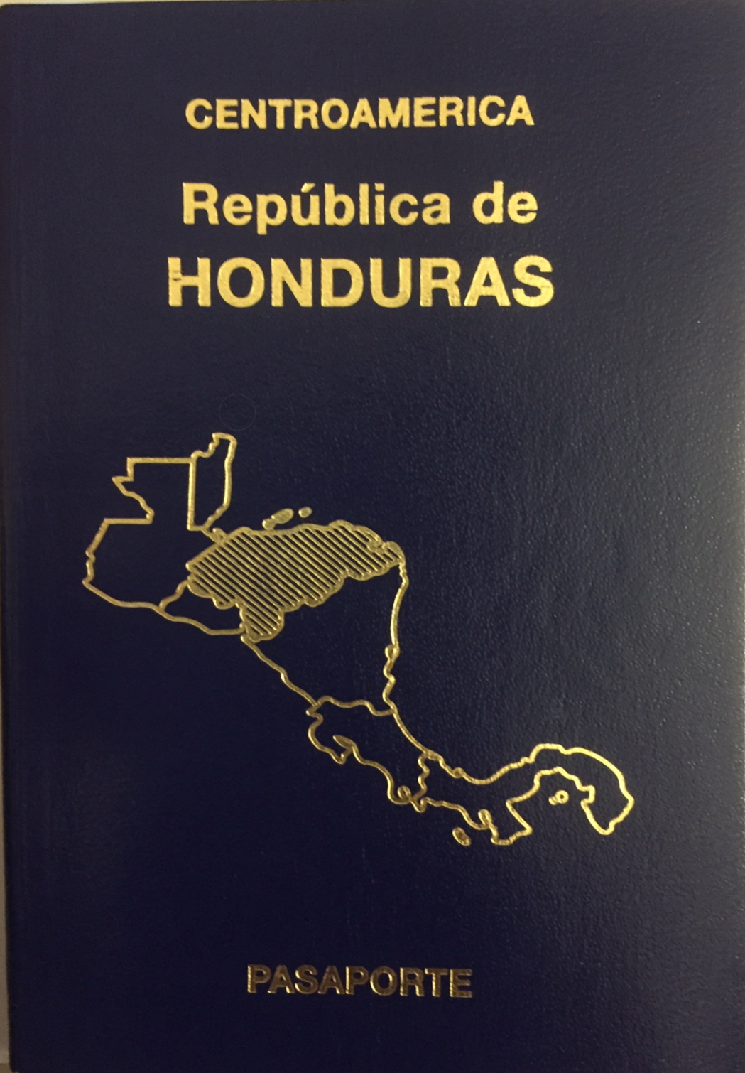 Honduran Passport